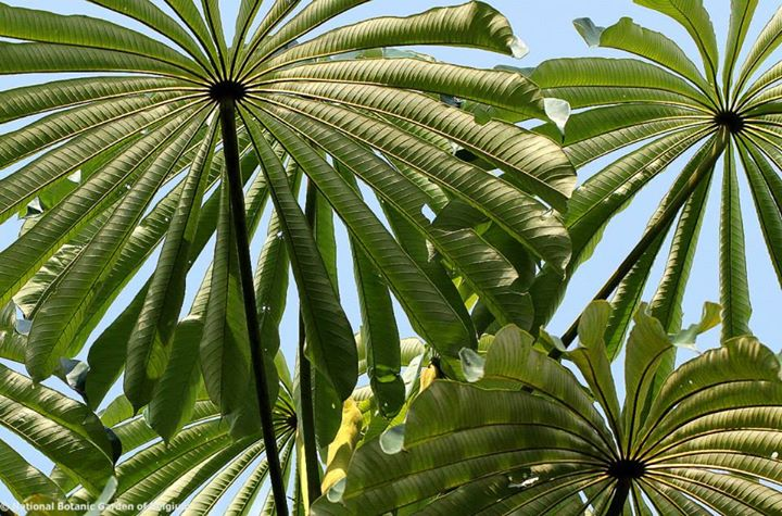 Musanga cecropioides - Yangambi, Central Democratic Republic of the Congo